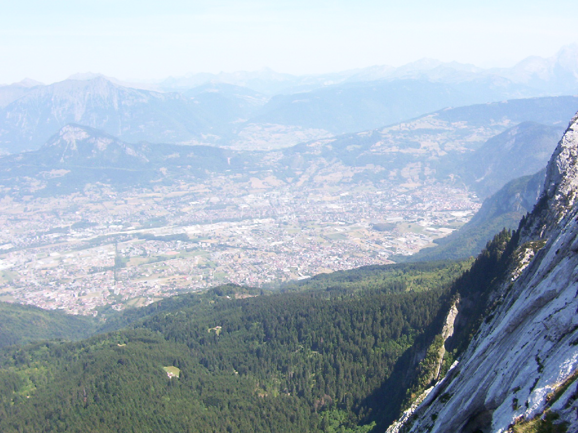 Category:Cluses